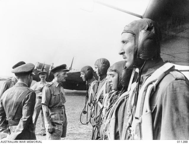 1942-01. DUTCH PLANES FOR MALAYA. MALAYA'S A.O.C., AIR VICE MARSHAL PULFORD, GREETING PERSONNEL OF THE DUTCH AIR FORCE AT SINGAPORE.